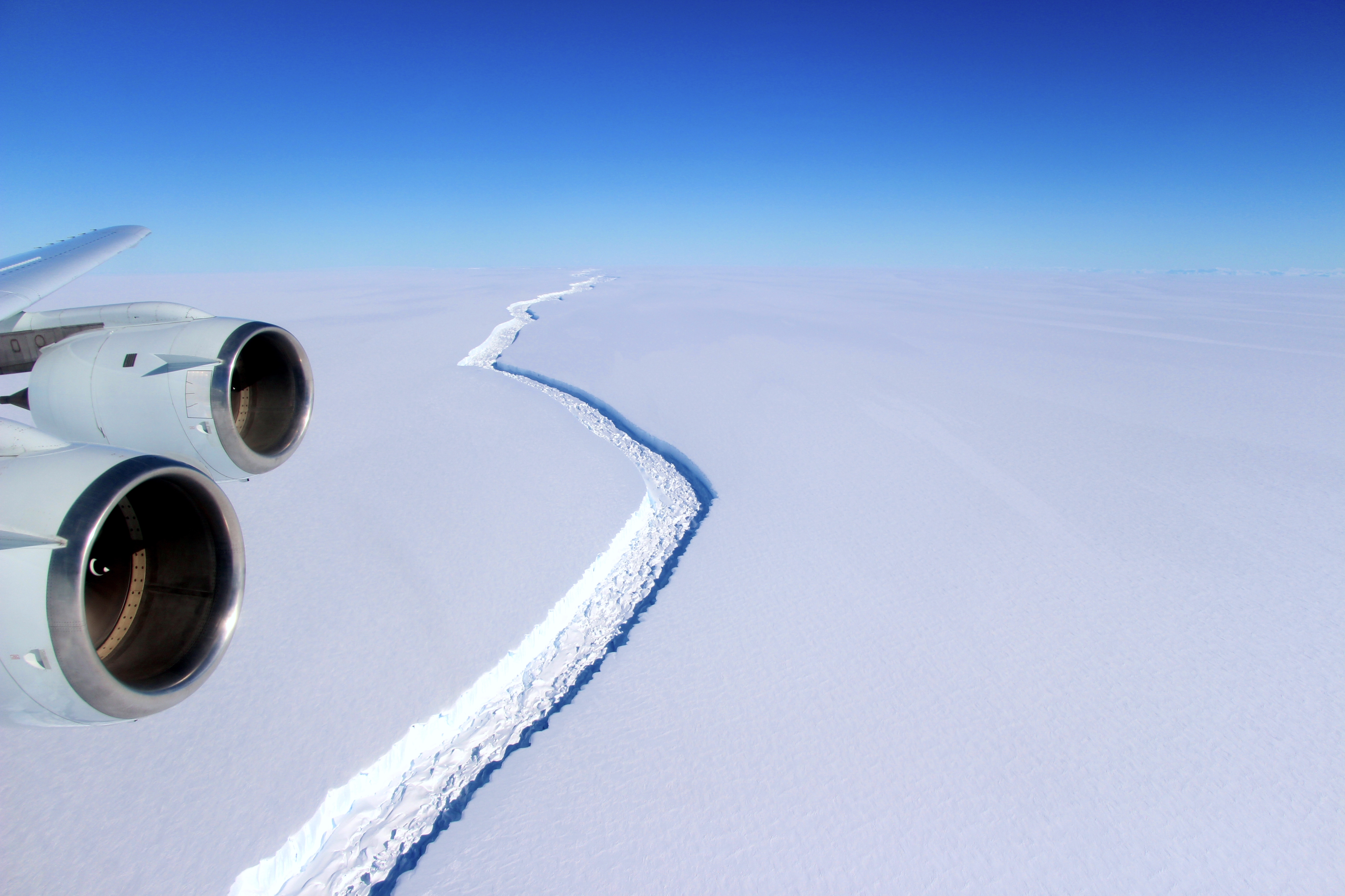 Snapshot of the rift in the Larsen C on Nov. 10, 2016.